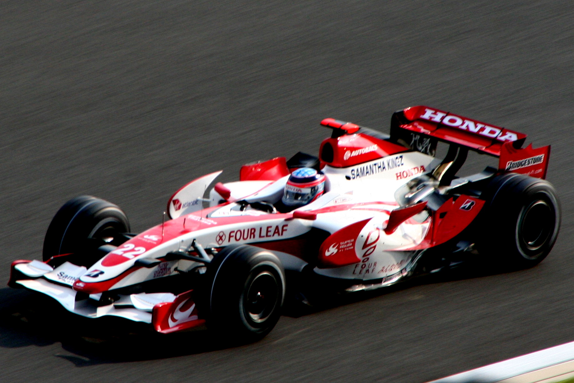 Takuma Sato driving for Super Aguri F1 at the 2007 Japanese Grand Prix.